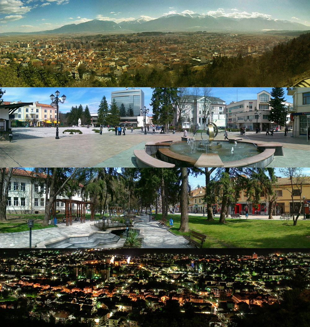 Razlog Sights